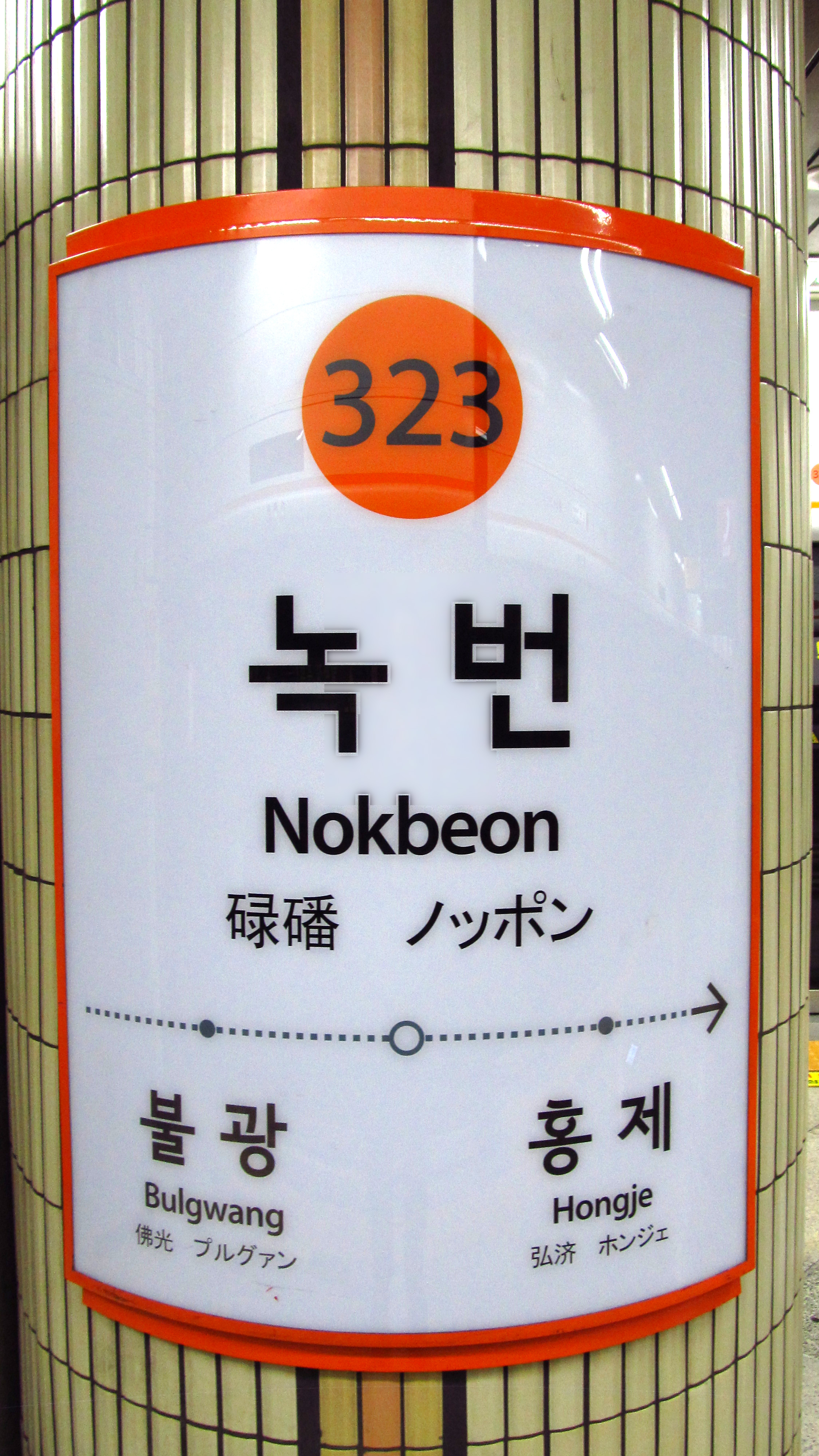 A sign of Nokbeon Station on Seoul Subway Line 3